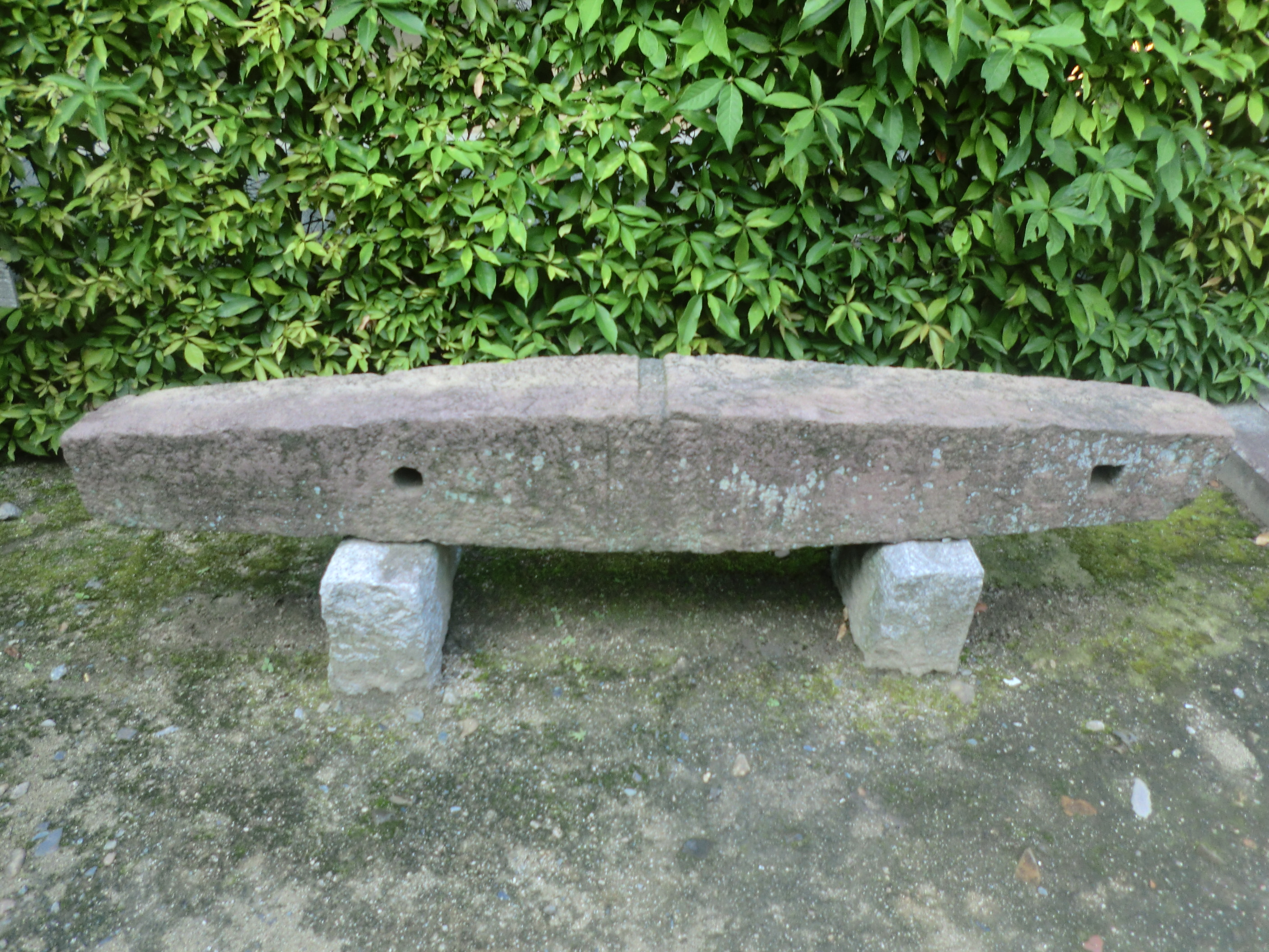 A stone used as anchor of Mongolian ships at Mongol invasions of Japan.Photographed at Shotenji temple in Fukuoka,Japan.